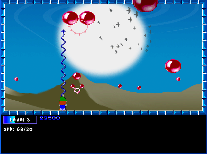 Screenshot of Pang Zero